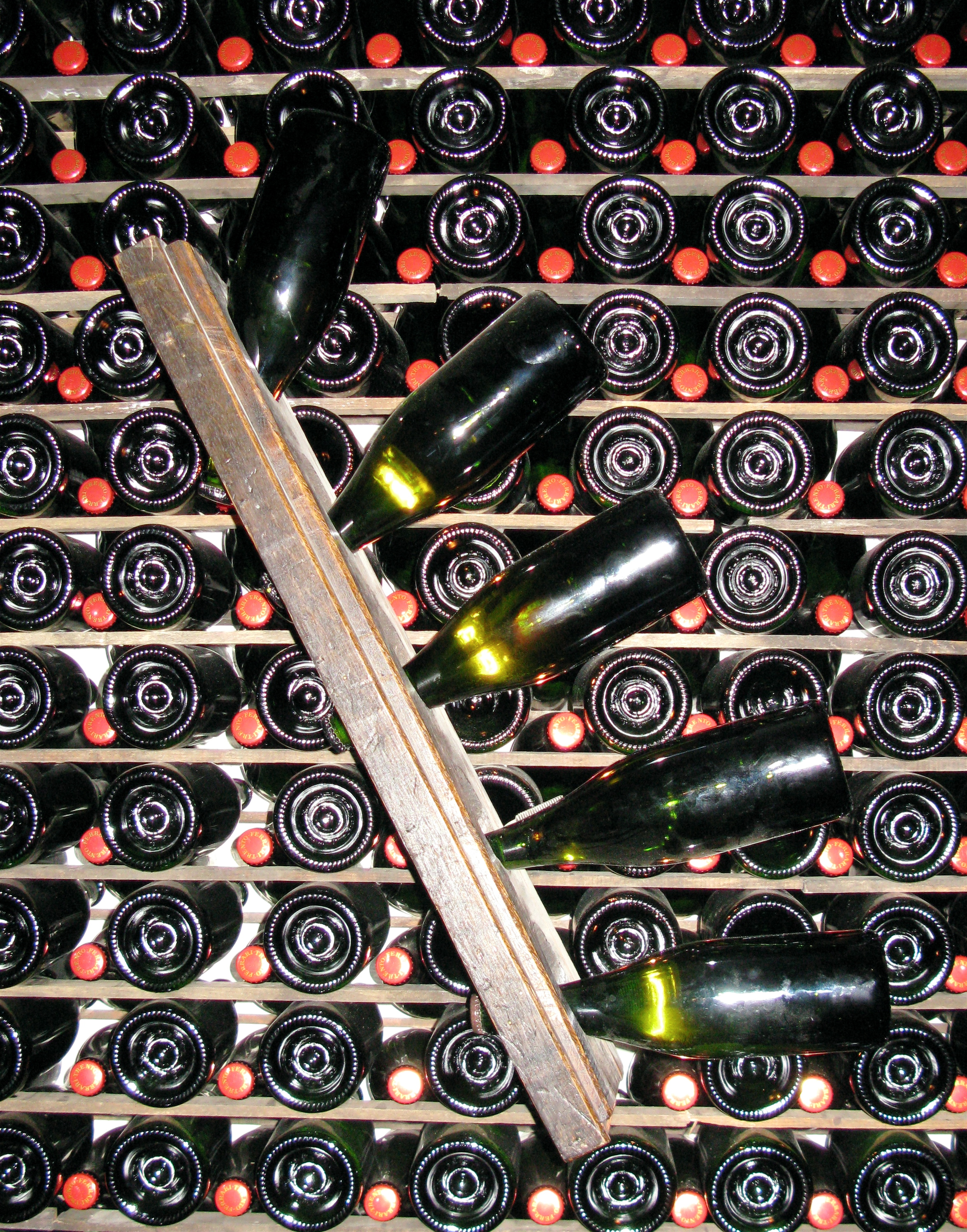 riddling